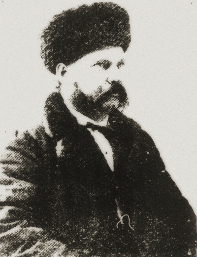 Gustav Kunst, enterpeneur in Russian Far East, co-founder of Kunst&Albers